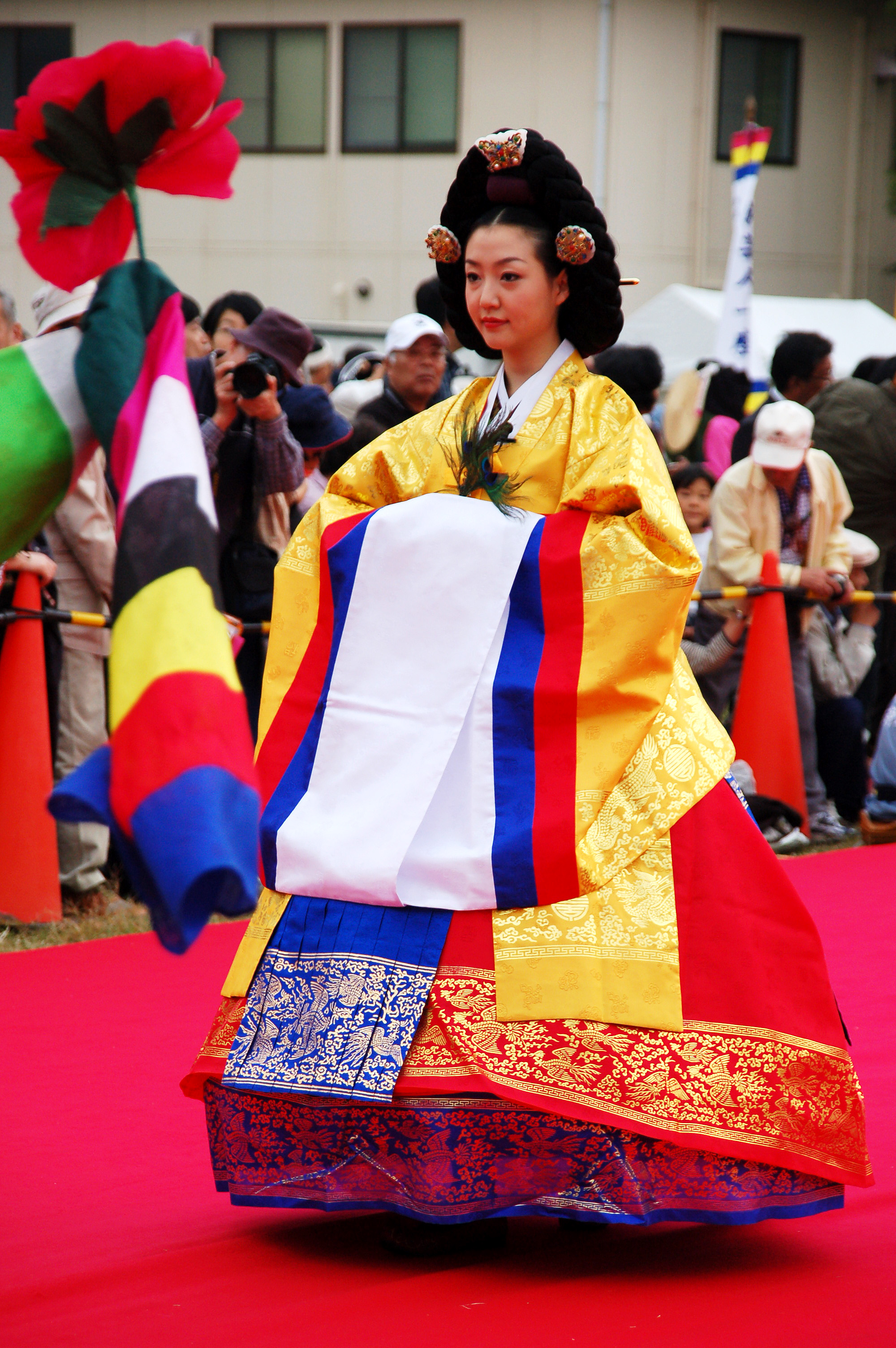 The model is wearing “Wonsam”, formal costume for queen of Joseon Dynasty and "Gache", wig.